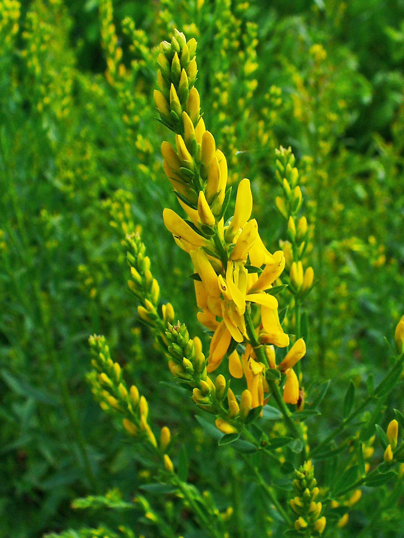 Genista tinctoria, Fabaceae, Dyer’s Greenweed, inflorescence. The plant is used in homeopathy as remedy: Genista tinctoria (Genist.)